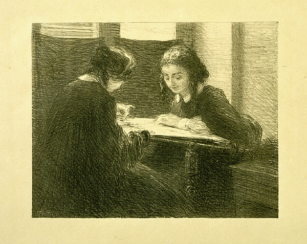 The Embroiderers, No. 3. Lithograph, 6 1/2 x 8 1/4 in. (16.5 x 21 cm) (image).